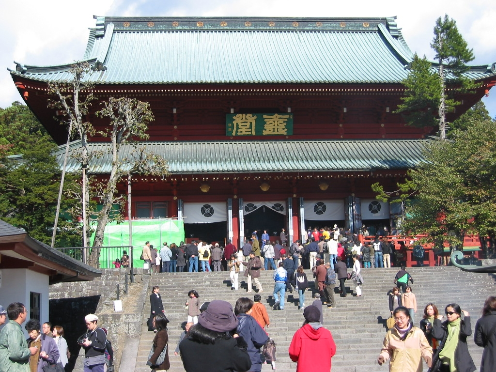 Headquarter bulding of Rinnou temple in Nikko, Tochigi, Japan